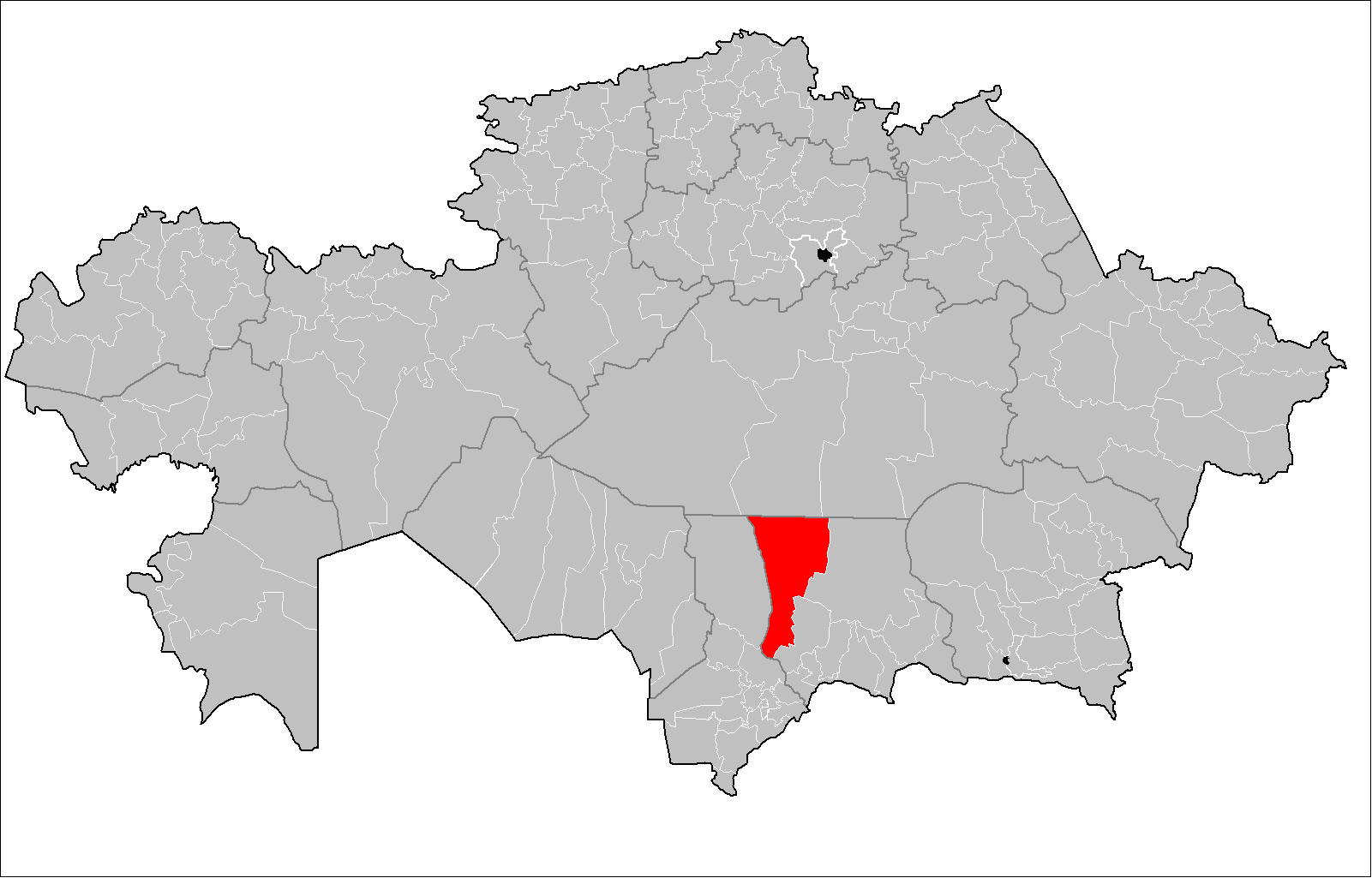 Map of the rayons of Kazakhstan. Created by Rarelibra 16:49, 3 August 2007 (UTC) for public domain use, using MapInfo Professional v8.5 and various mapping resources.